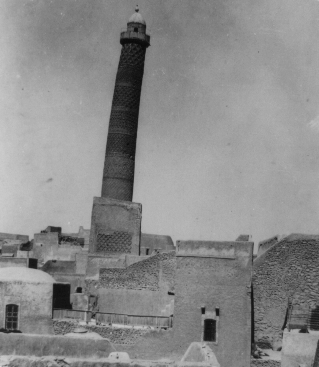 Al Hadba Minaret, Mosul